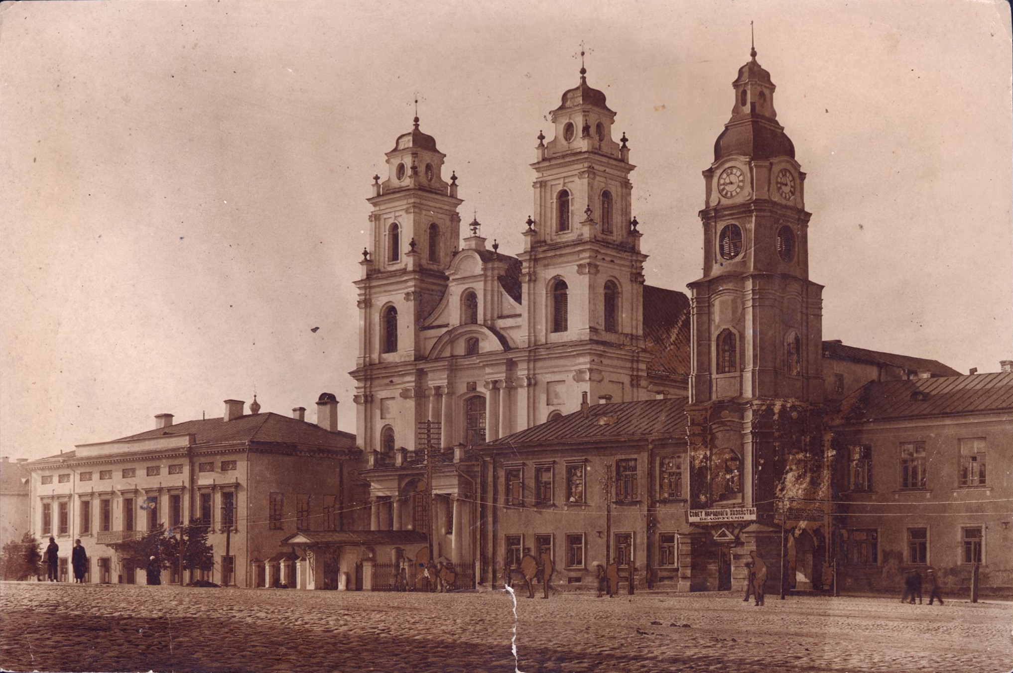 Cathedral of Miensk